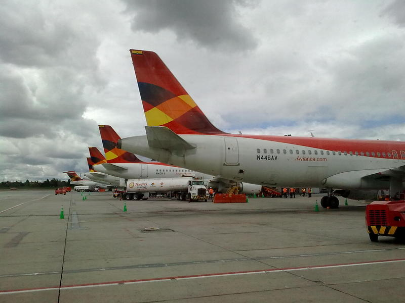 Avianca "Air Bridge Terminal" at SKBO